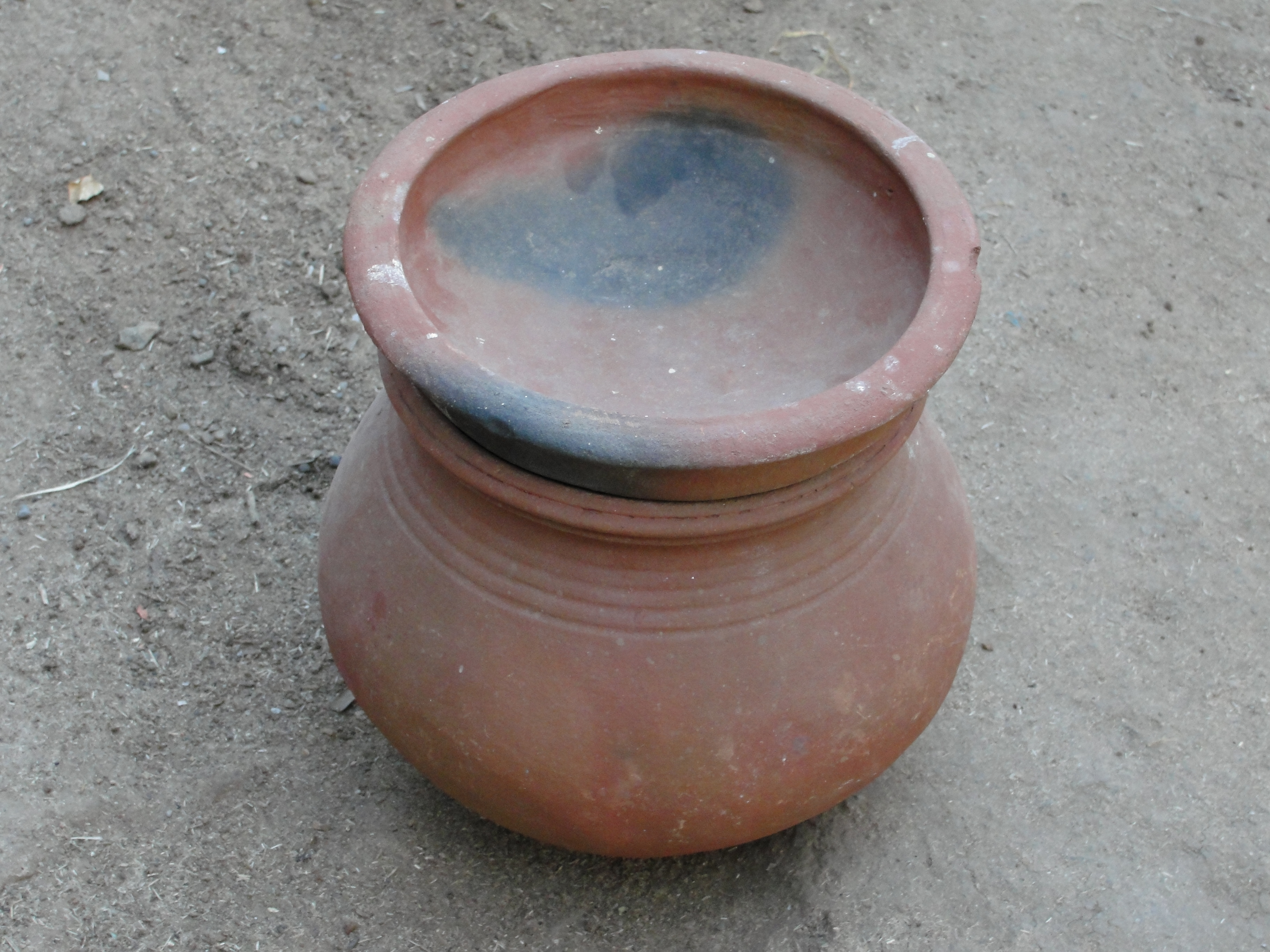 A depiction of mud pot with lid Unknown